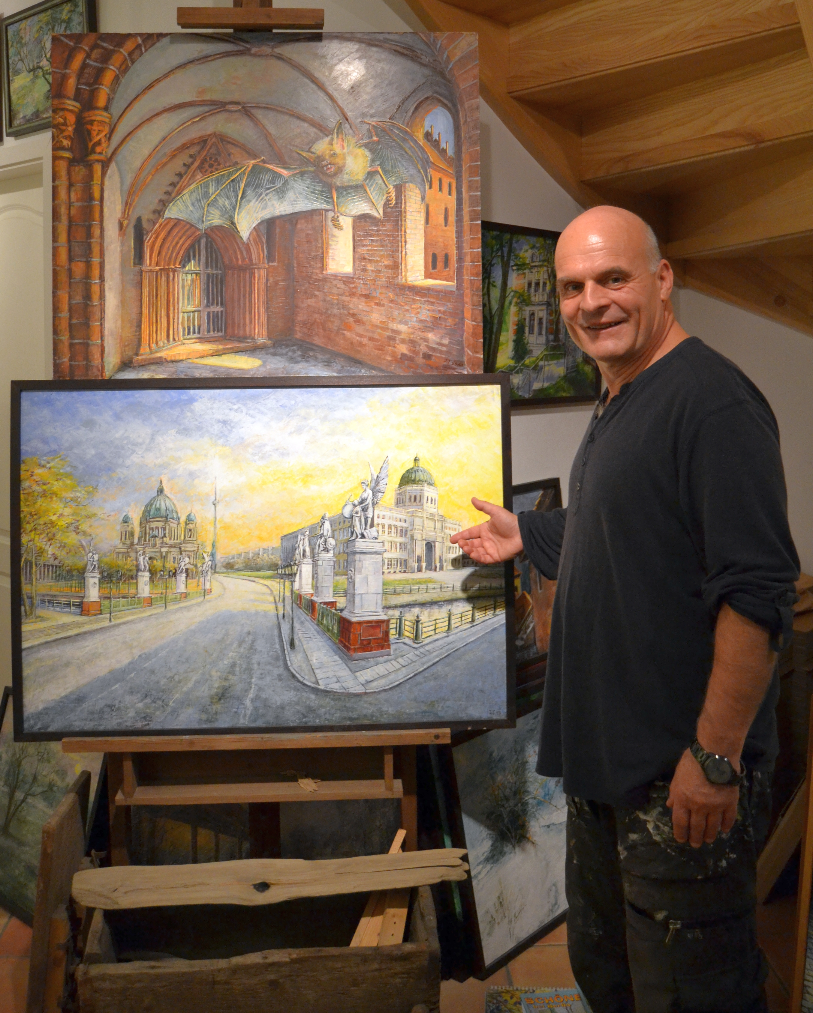 Joachim Tilsch (b. 1959), german Painter, in November 2019 in Schöneiche bei Berlin